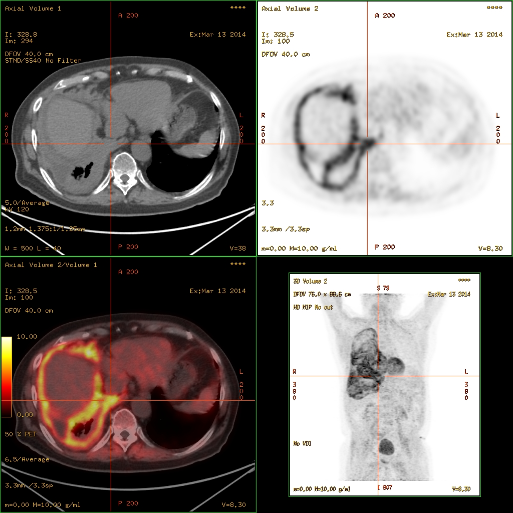 Mesothelioma in PET-CT